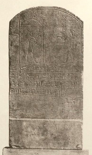 Stele commemorating the death of an Apis bull in Year 24 of Taharqa. 25th dynasty, Third intermediate period. Found in the Serapeum of Saqqara.